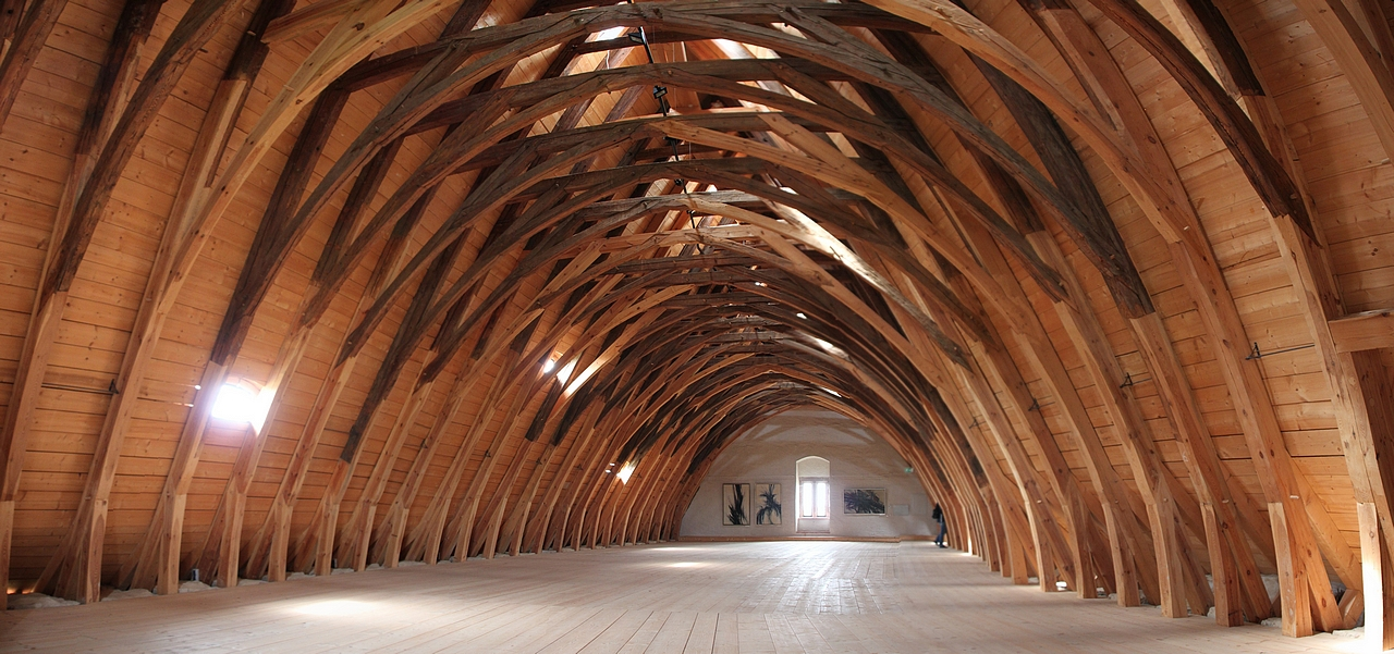 Leisnig: Mildenstein Castle, attic (built 1394/95) used as granary.